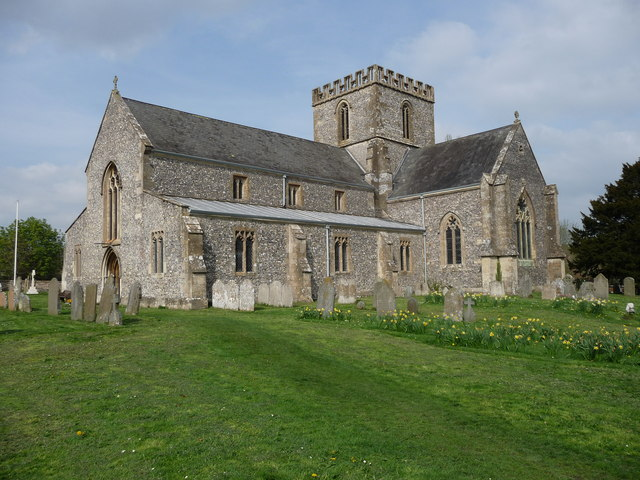 Great Bedwyn - Church Of St Mary The Virgin A view of St Mary's on the footpath from the level crossing and canal.